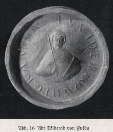 Seal of the abbot Widerad of fulda